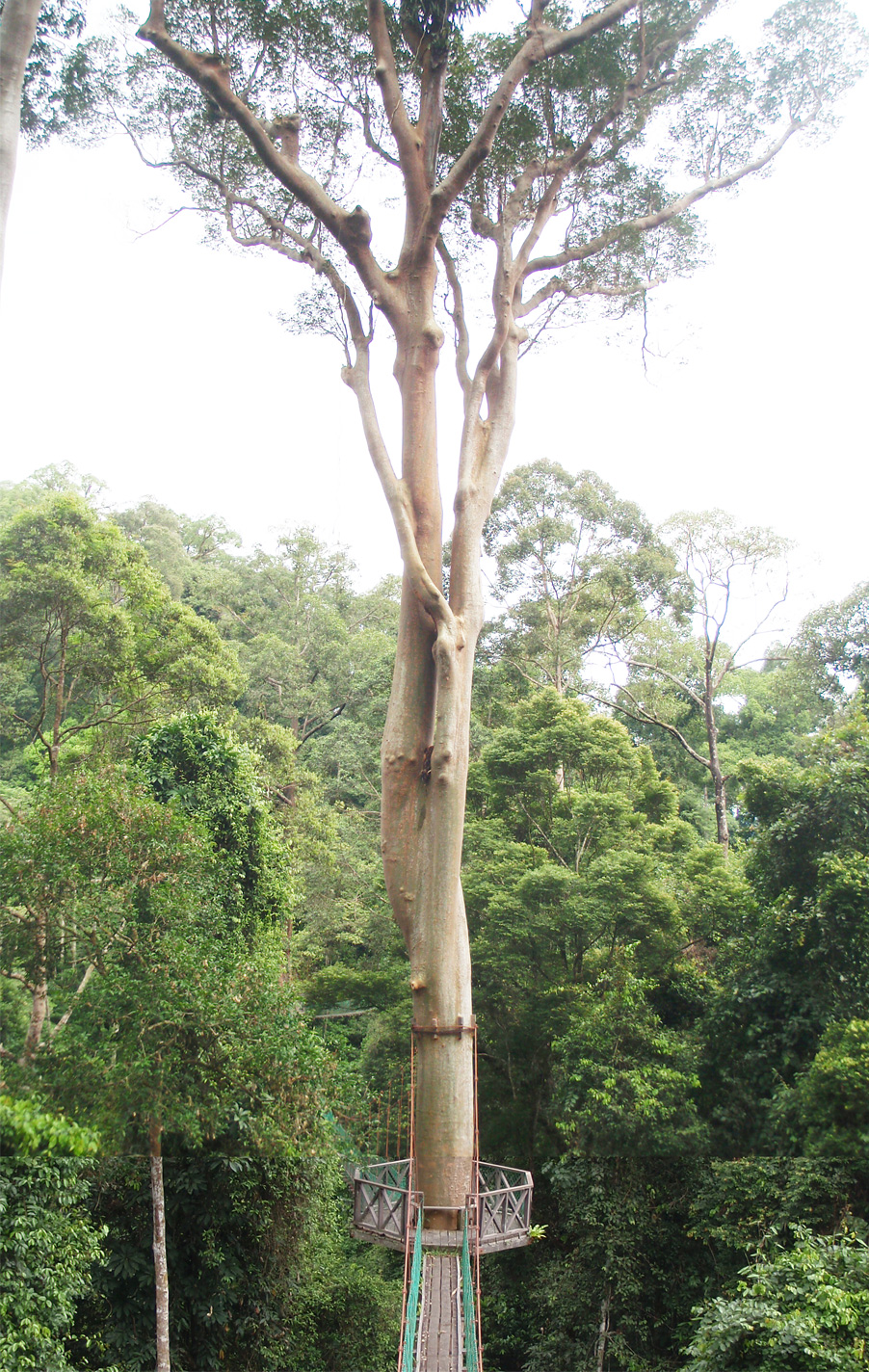 Koompasia excelsa - support for part of a canopy walkway, Sabah, Borneo